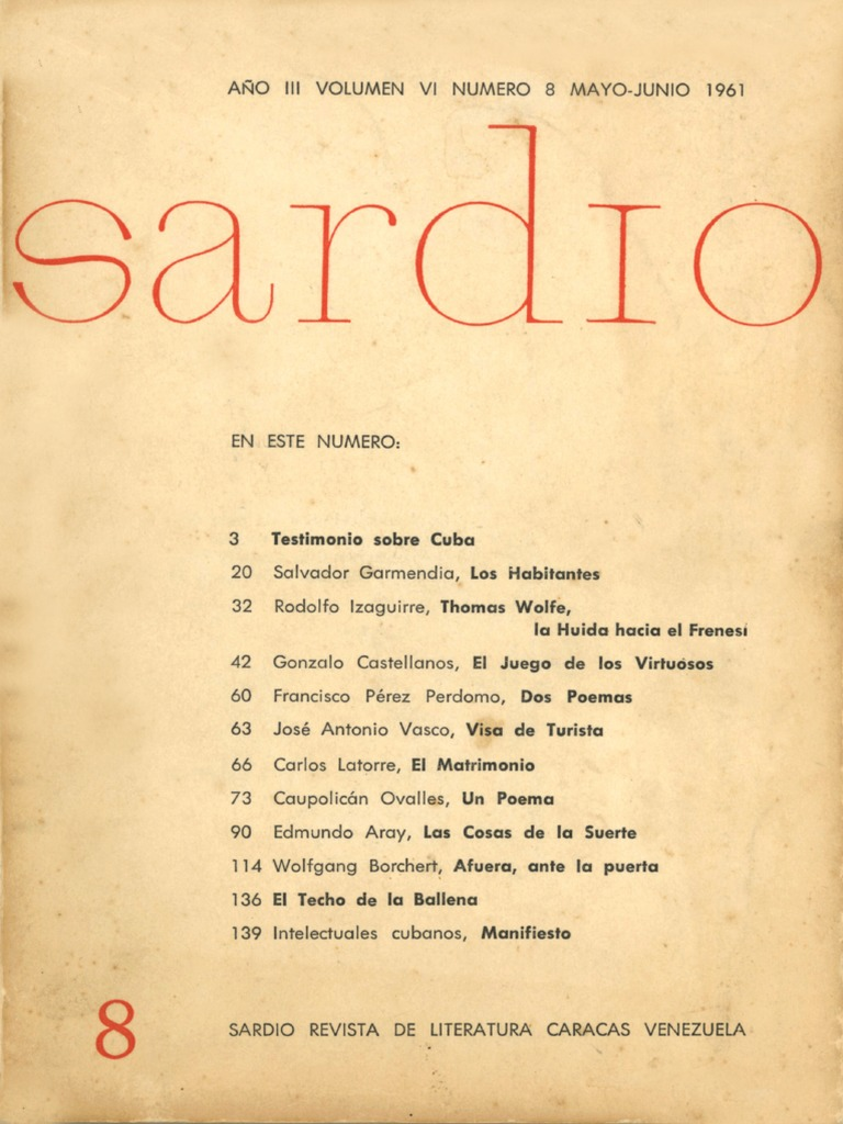 Sardio N°8